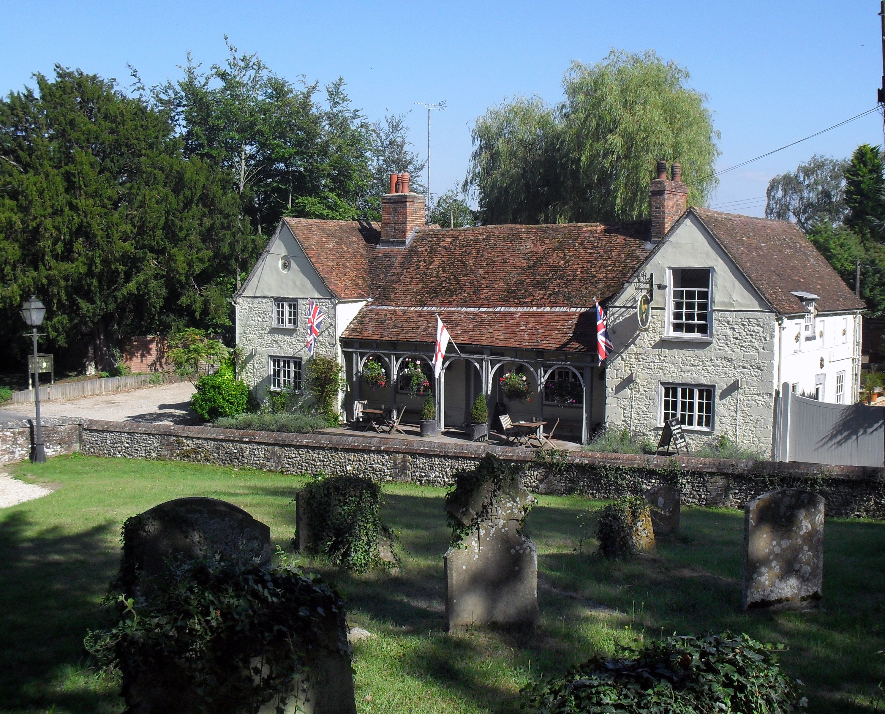 The Lord Nelson pub, Brightwell Baldwin, Oxfordshire, seen from the northwest from St Bartholomew's parish churchyard